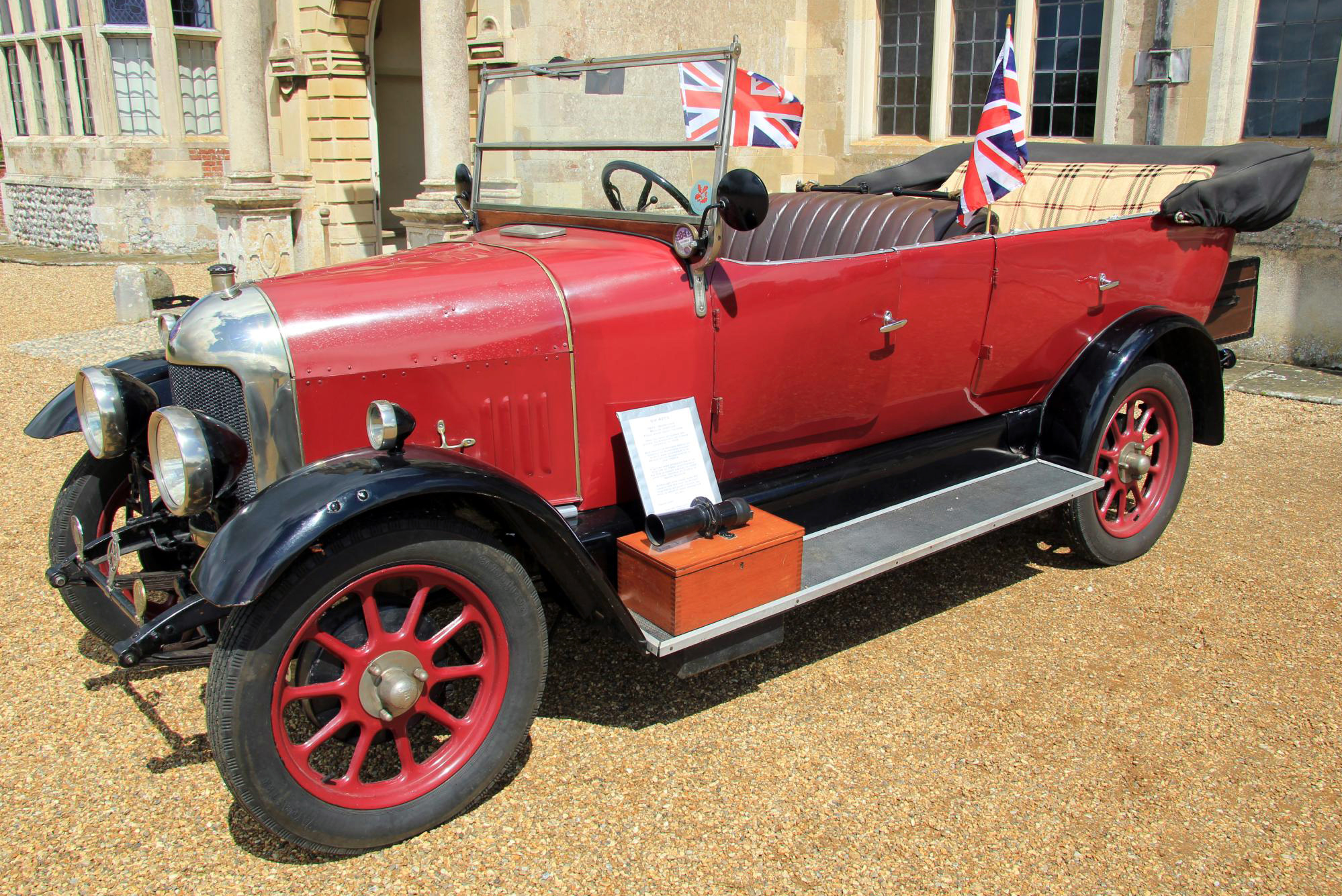 1925 Morris Oxford "Bullnose" four-seat Tourer, belonging to the proprietors of Felbrigg Hall, UK. 1465cc engine, is this a later replacement? The car was exported to Australia as a bare chassis in 1926.